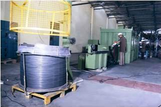 Welding Consumable Plant. Ador Welding Limited uses image for display in public domains.